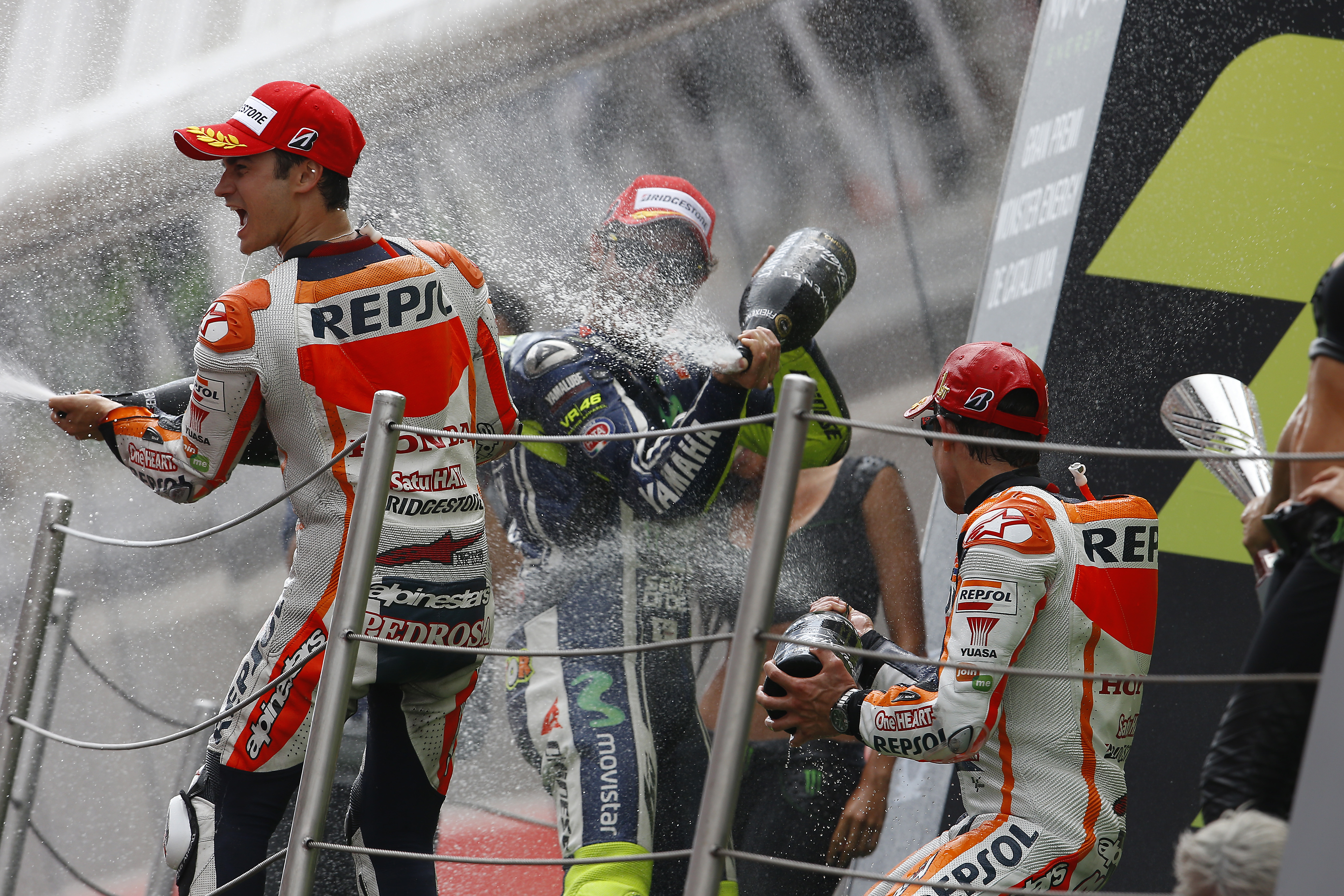 Dani Pedrosa, Valentino Rossi and Marc Márquez, spraying the champagne on the podium after finishing in third, second and first place at the 2014 Catalan Grand Prix.